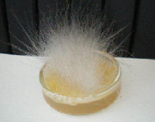 Figure8. Zygomycetes on solid media.